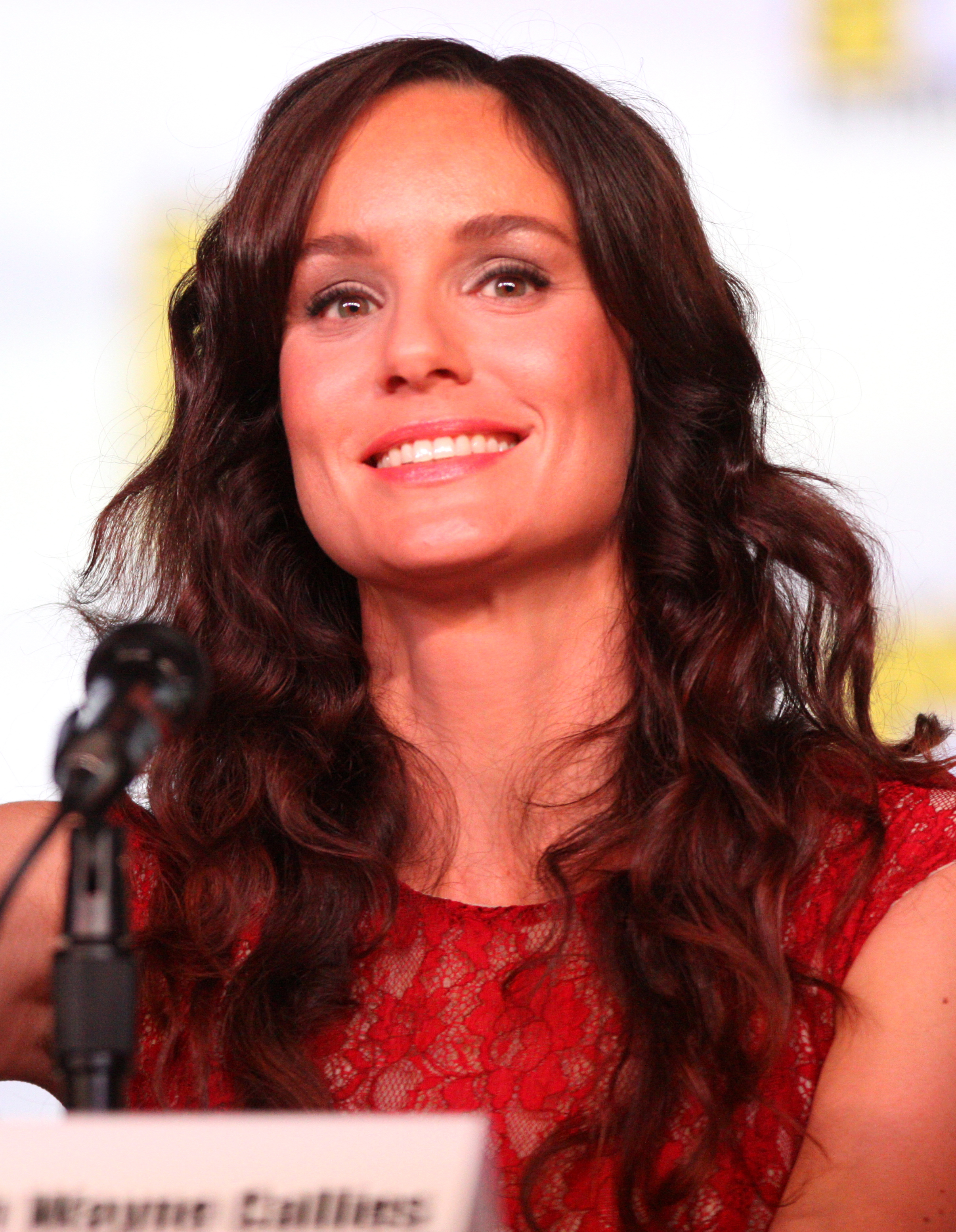 Sarah Wayne Callies at the 2012 Comic-Con in San Diego.